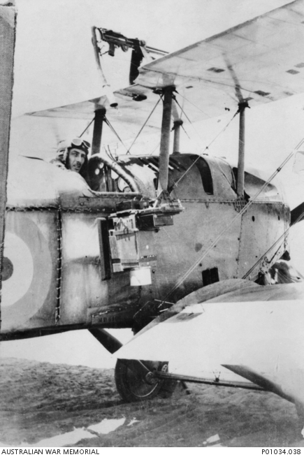 MIDDLE EAST. 1917. LIEUTENANT A. T. COLE OF THE AUSTRALIAN FLYING CORPS (AFC) IN A MARTINSYDE G.100 AIRCRAFT EQUIPPED FOR AERIAL PHOTOGRAPHY WITH A WILLIAMSON AERIAL CAMERA